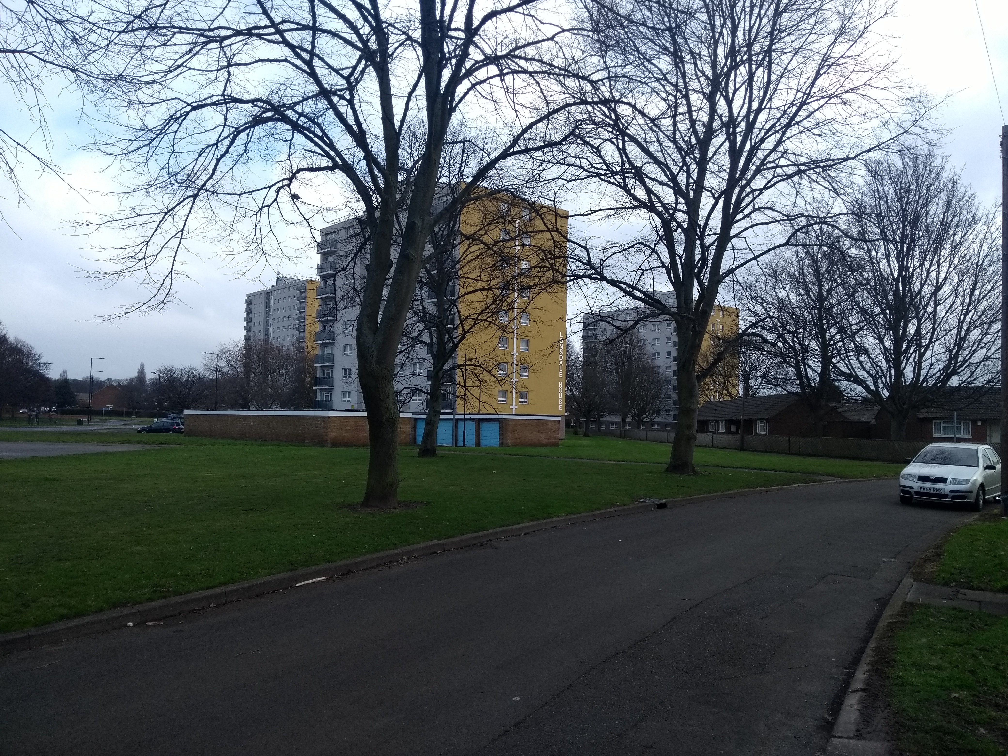 Blocks of flats in Intake,Doncaster